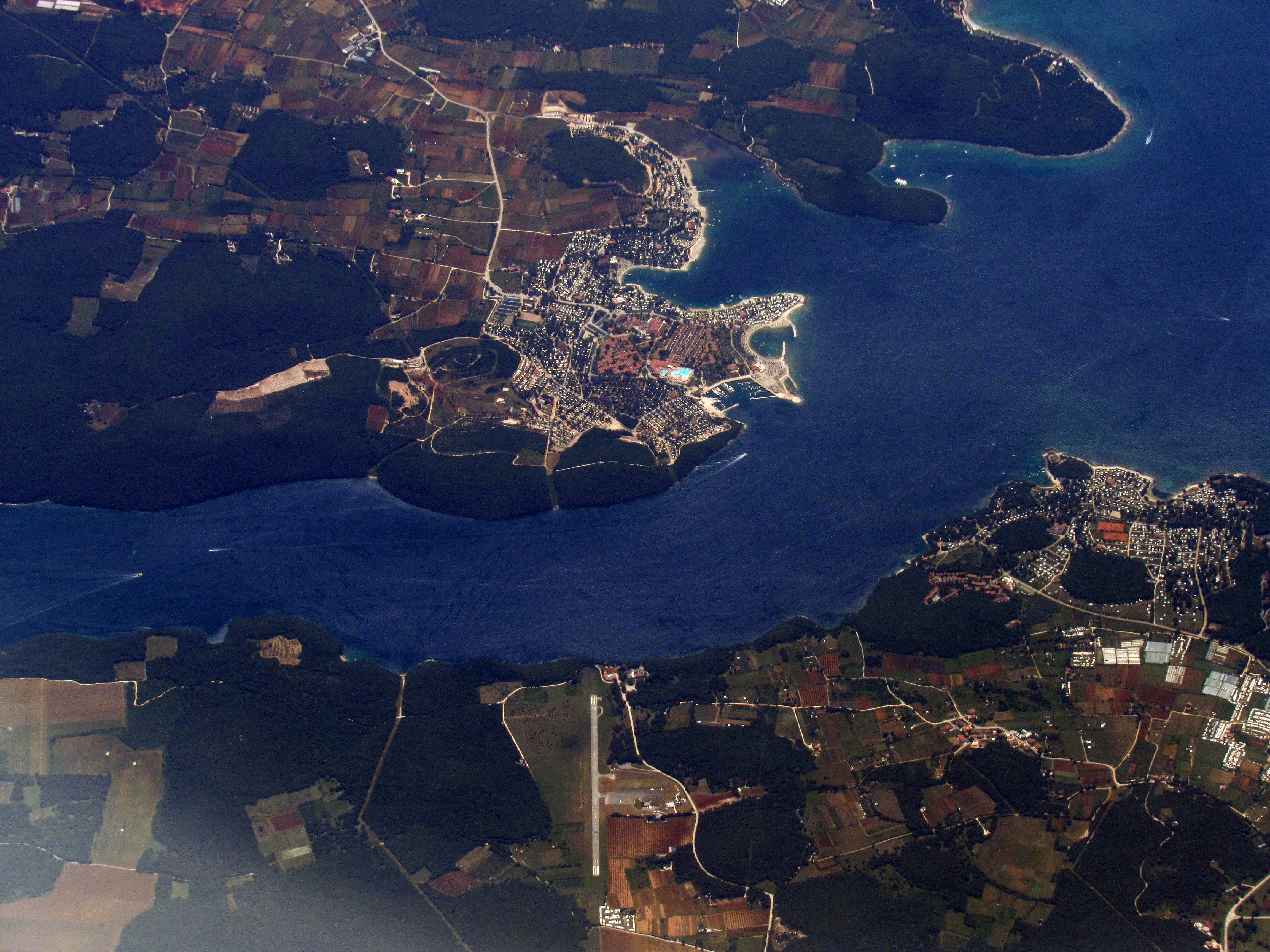 Mouth of the Lim Bay, Croatia.